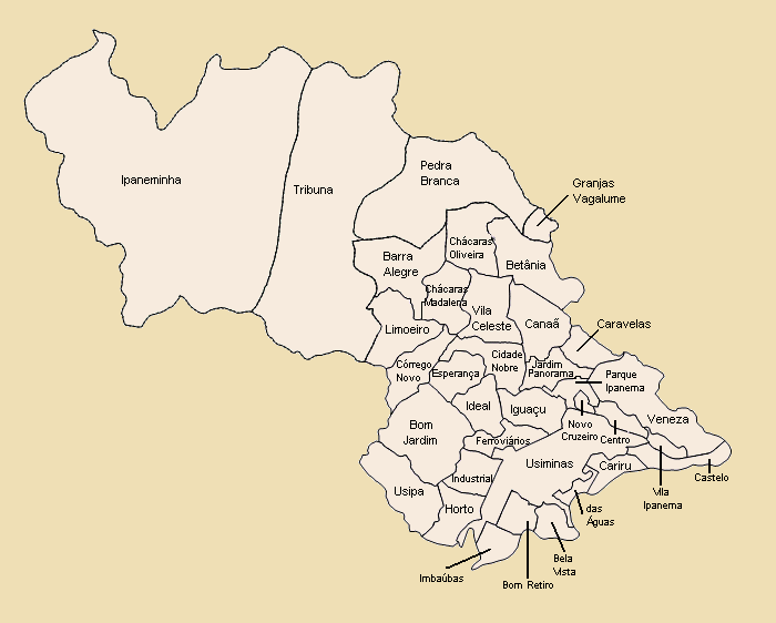 Neighbourhoods of Ipatinga, Minas Gerais, Brazil.